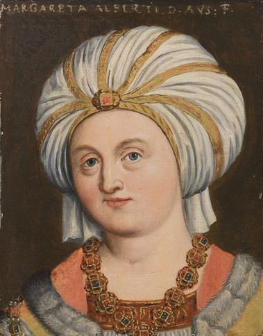 Margaret of Austria Duchess of Tyrol